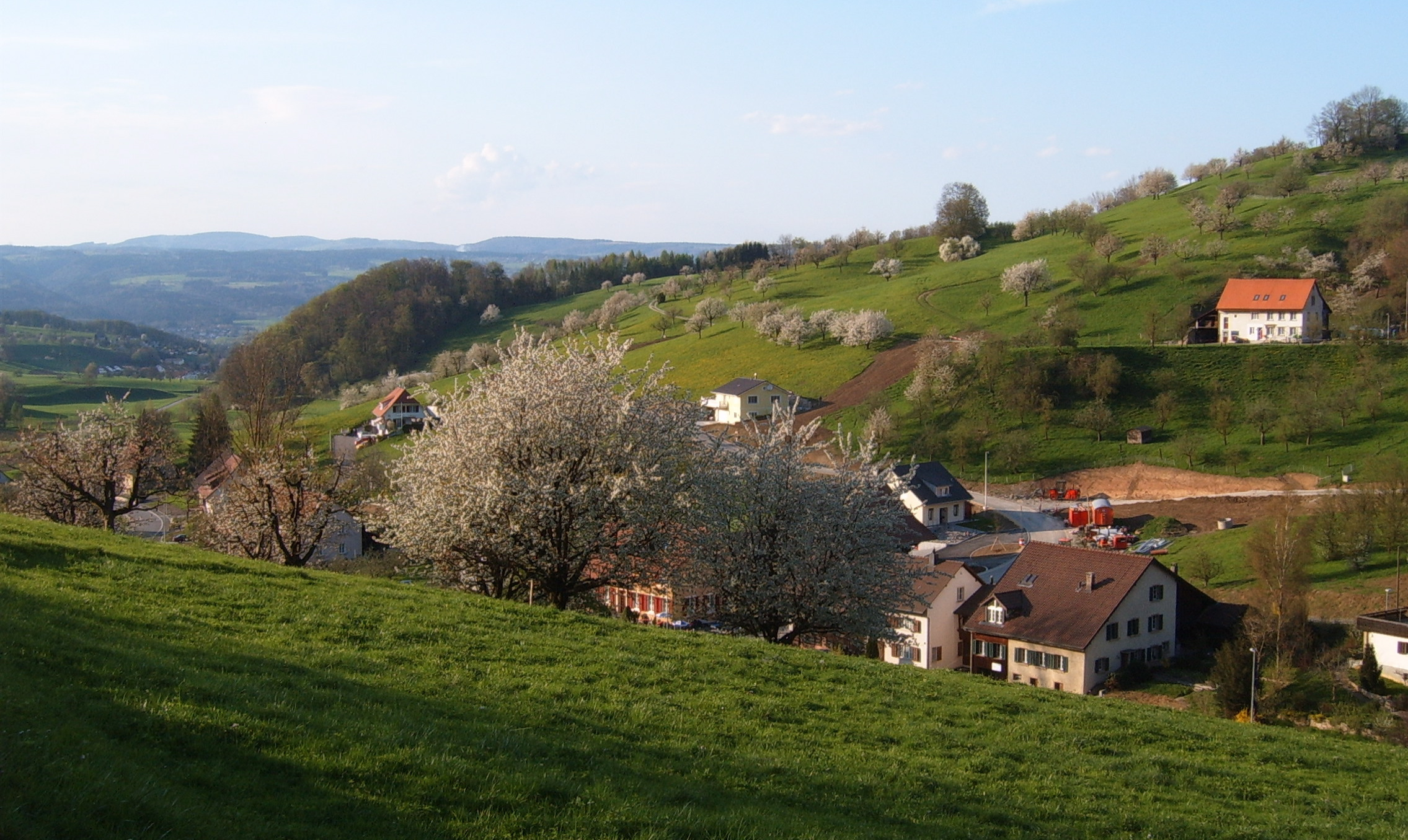 Ittenthal, Fricktal, Switzerland